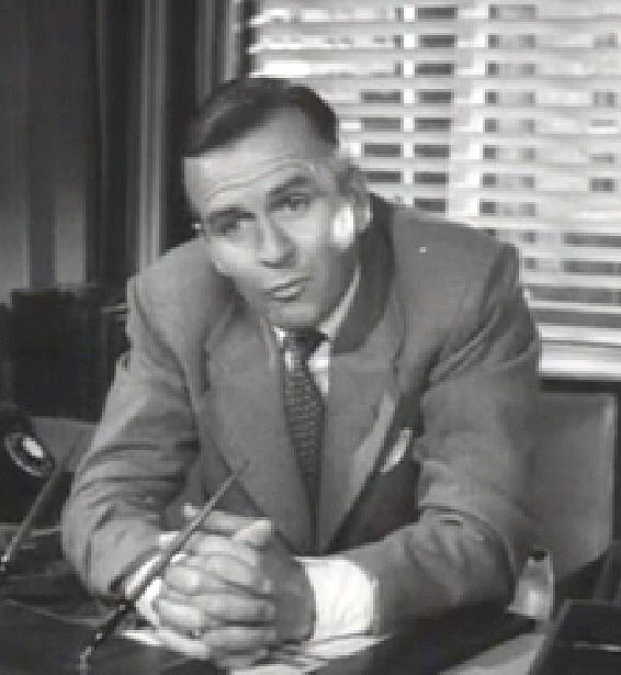 Hayden Rorke in Father's Little Dividend (cropped screenshot)